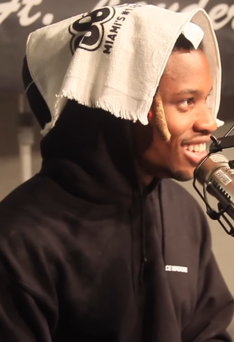 Denzel Curry in August 2018